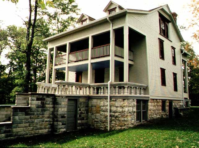 Back Porch of the Bailly Homestead, Indiana Dunes National Lakeshore